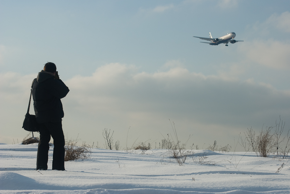 Famous russian aircraft spotter Sergei Alexandrov at work